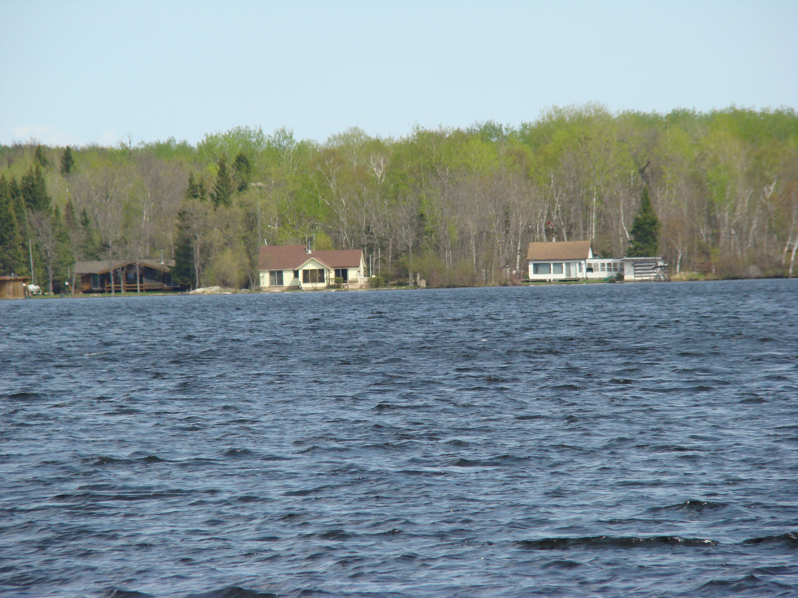 Falcon Lake Summer 2009 Manitoba Canada